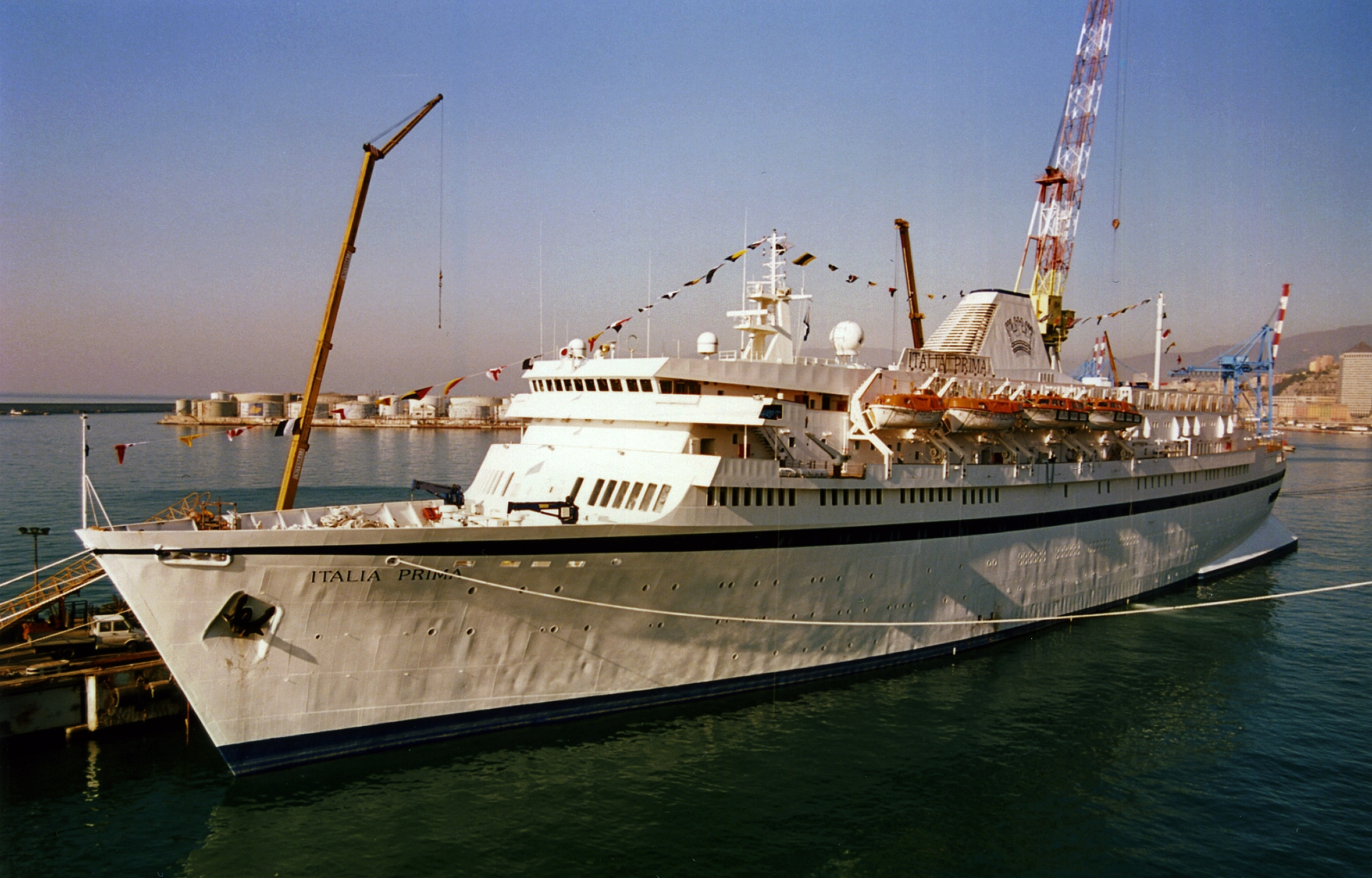 The cruise ship Italia Prima ready to leave Genoa on October 16, 1994.